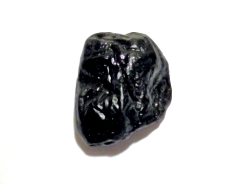 Photograph of a prune that I took. Enhanced in Photoshop.